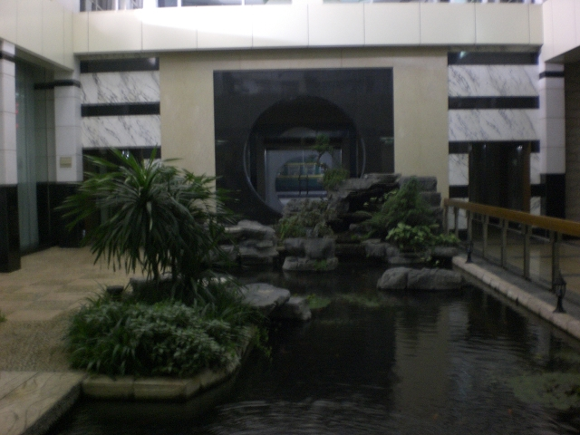 柳州软侯